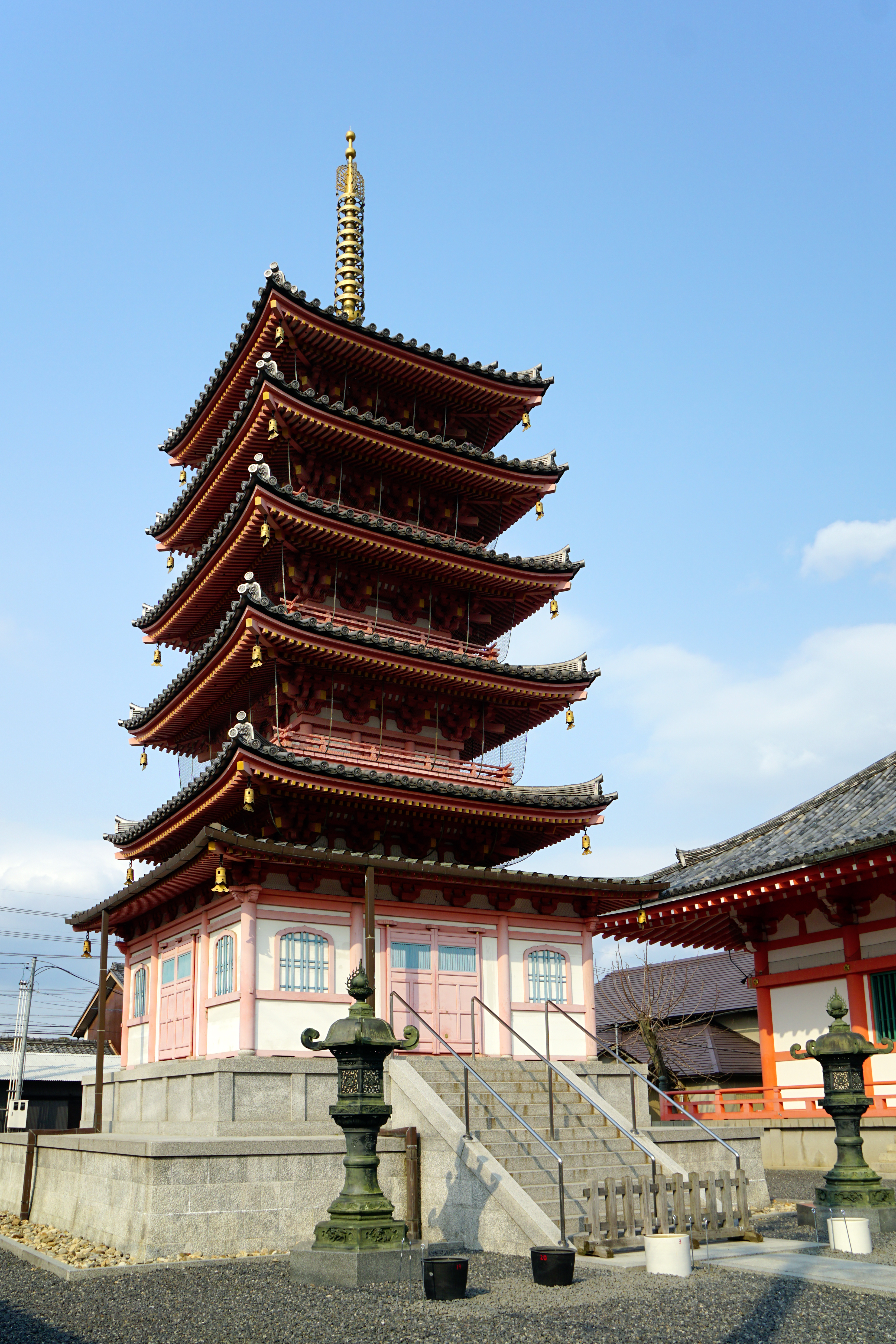 Tsu Kannon in Tsu, Mie prefecture, Japan.